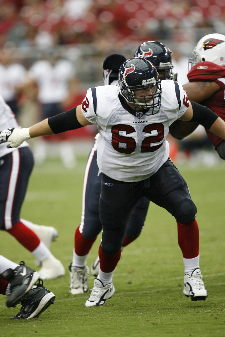 Scott Jackson playing right guard in a 2007 Houston Texans game against the Arizona Cardinals.